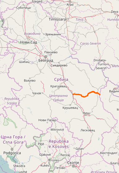 OpenStreetMap of State Road 36 in Serbia.